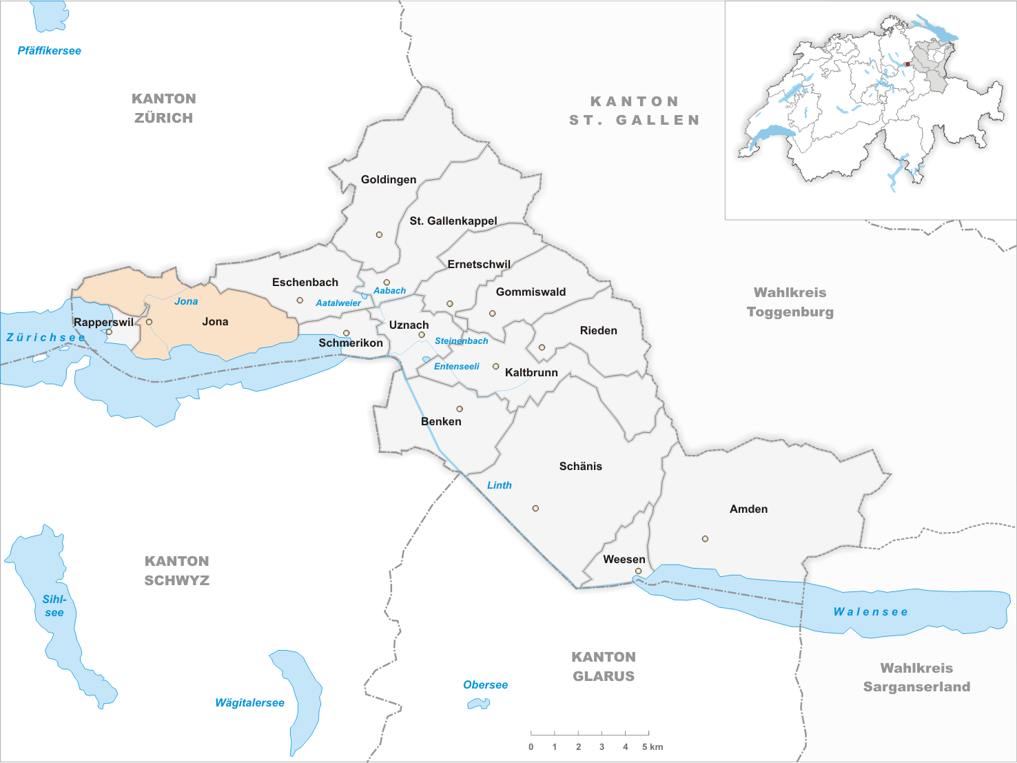 Municipality Jona Artist: Tschubby